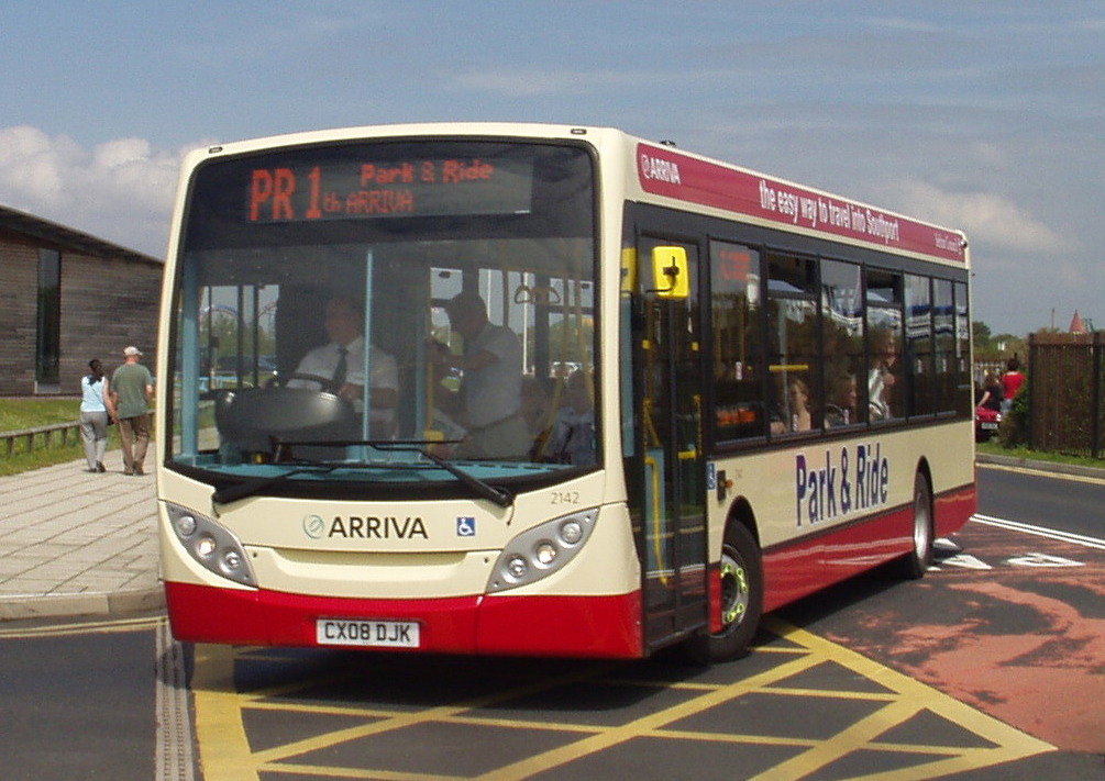 Arriva North West and Wales bus 2142 on Southport Park and Ride service PR1, pictured entering Esplanade Park and Ride. The bus is an Alexander Dennis Enviro200 Dart and had been in service less than a week when the photograph was taken.